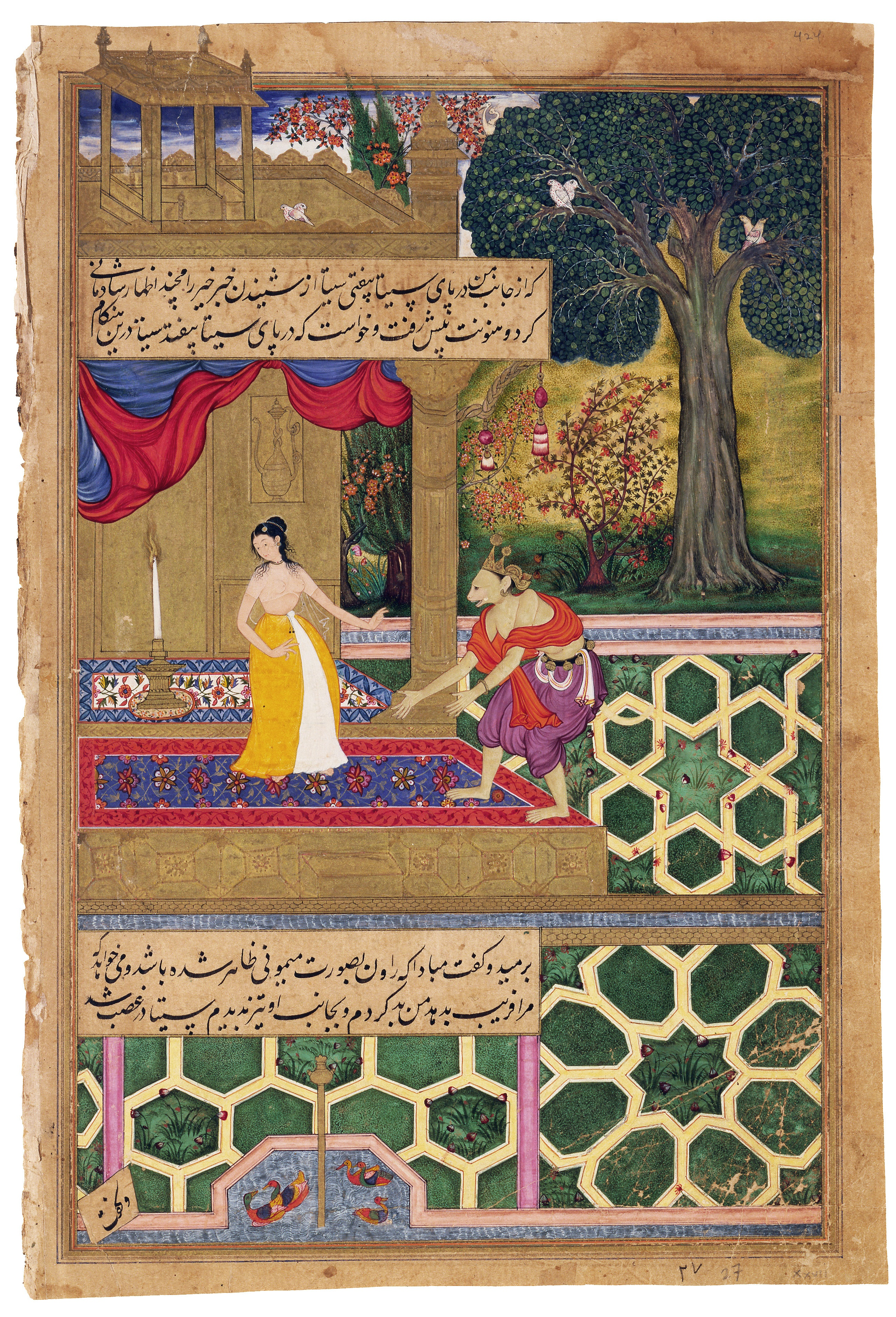 Sita Shies Away from Hanuman, Believing He is Ravana in Disguise, Ramayana, 1594, The David Collection, Copenhagen